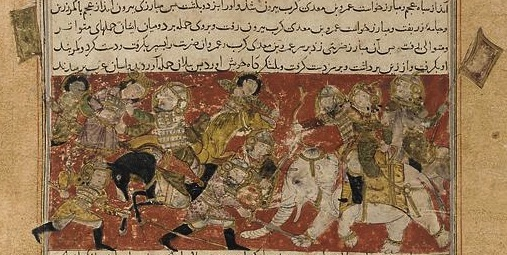 Folio from a Tarikhnama (Book of history) by Balami